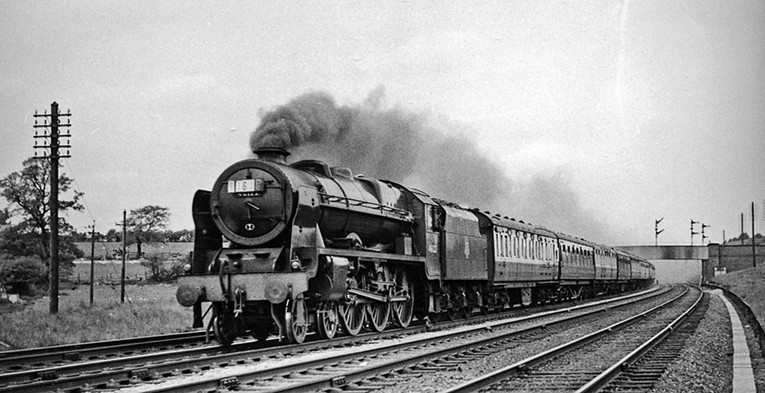 Up Cup Final Special on the WCML north of Bletchley, View NW, on the West Coast Main Line towards the later site of Milton Keynes Central Station, Rugby amd the North. The train, for Manchester United supporters, was headed by Rebuilt 'Royal Scot' 7P 4-6-0 No. 46122 'Royal Ulster Rifleman'; United lost 1 - 2 to Aston Villa. I spent the day enjoying my Lineside Pass by walking all the way along the track from Bletchley to Wolverton - i.e. right through present-day Milton Keynes: it was a memorable and productive outing! This photograph was taken near Denbigh Hall Box.